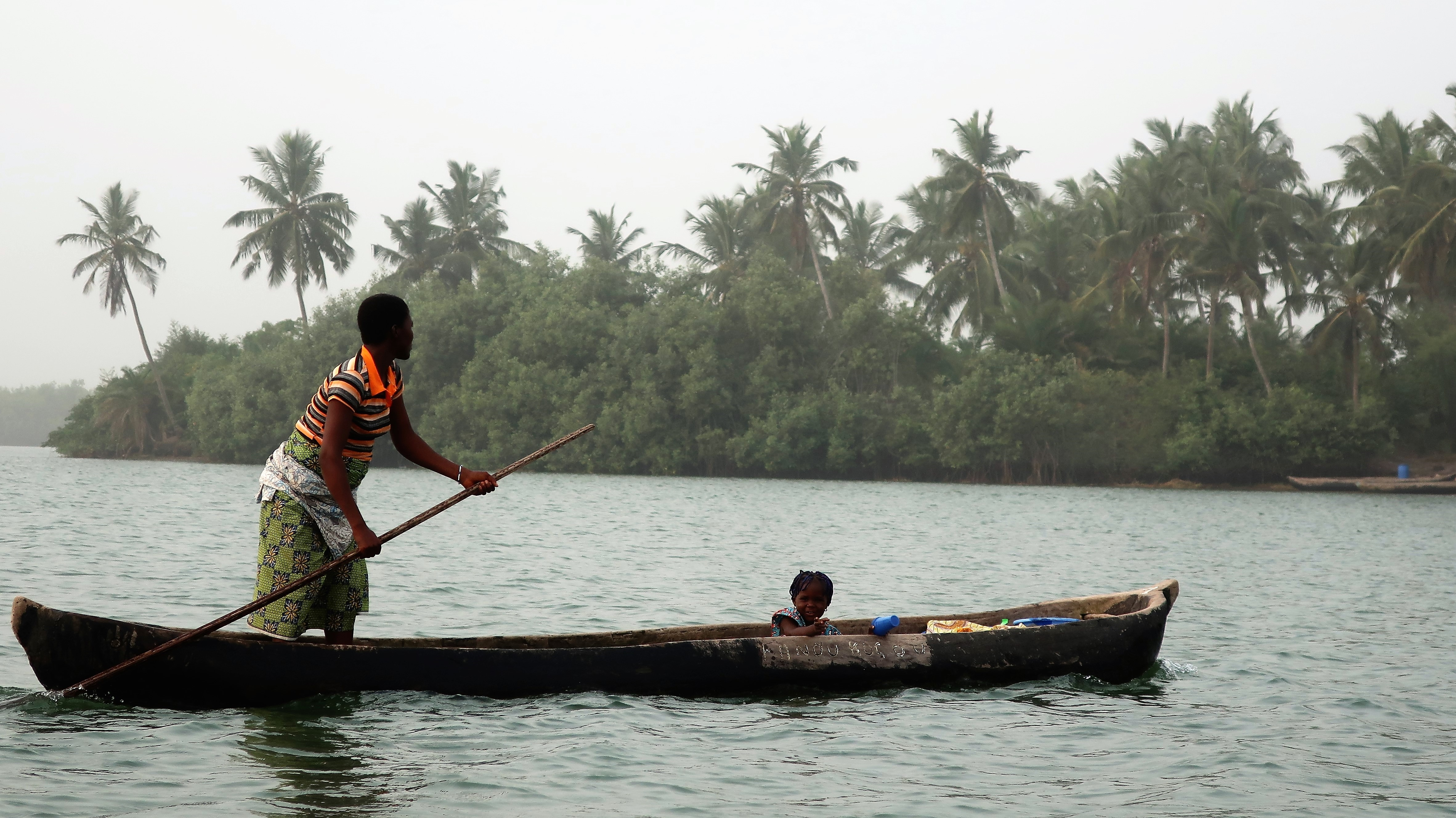 A lady steering her boat with child, crossing the lagoon.